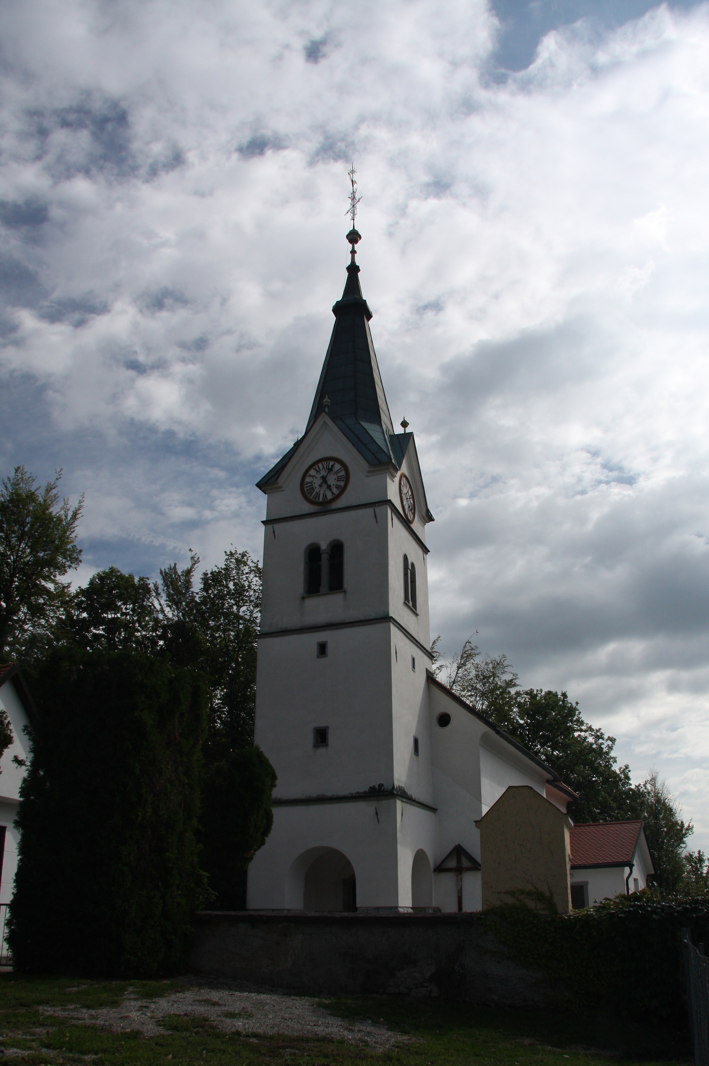 Saint Lawrence church, Dragomer, Slovenia